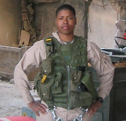 Vernice Armour in full flight gear before heading out on a mission during the Iraq War.